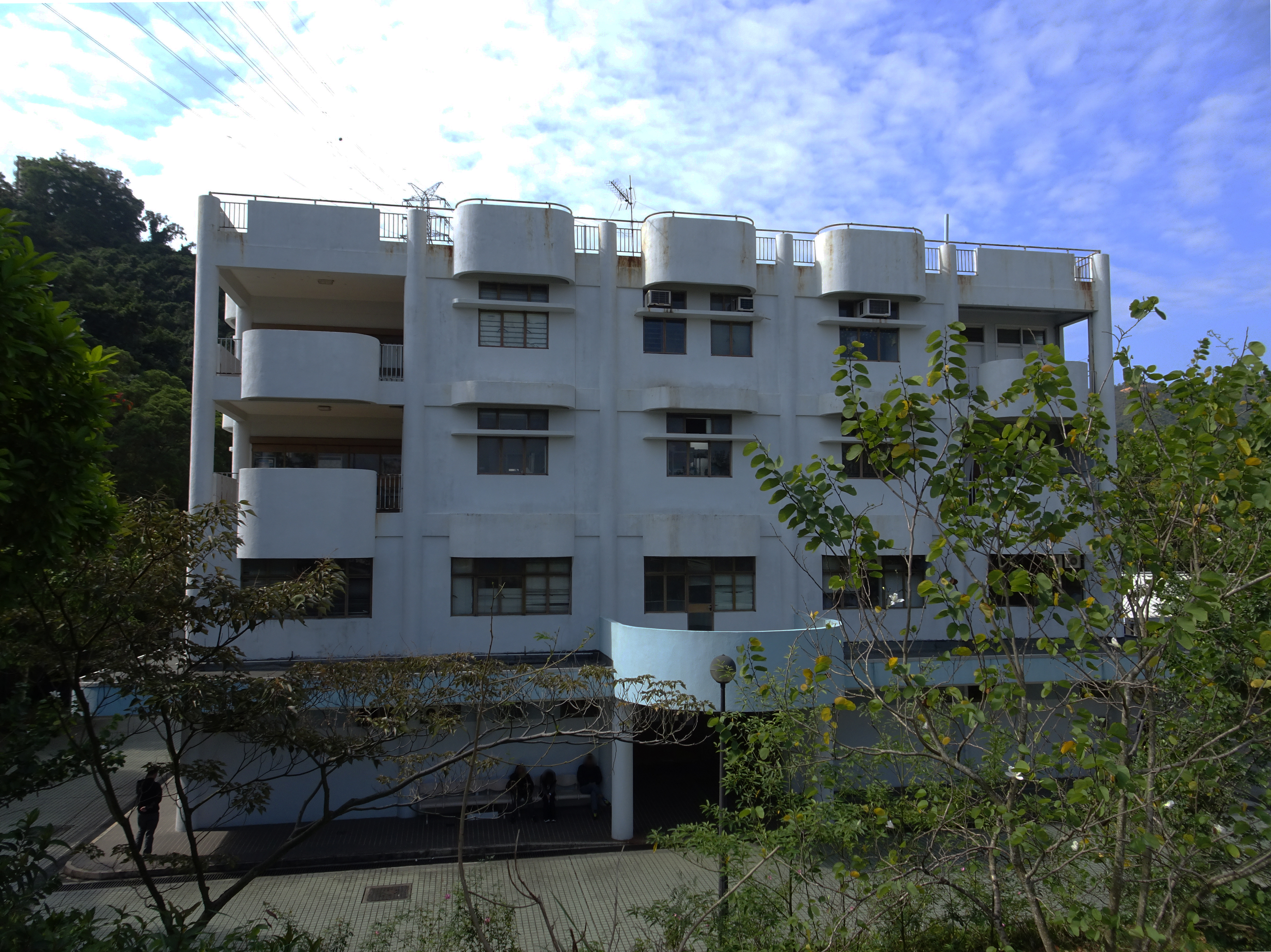 Fu Shan Public Mortuary in Tai Wai, Hong Kong.